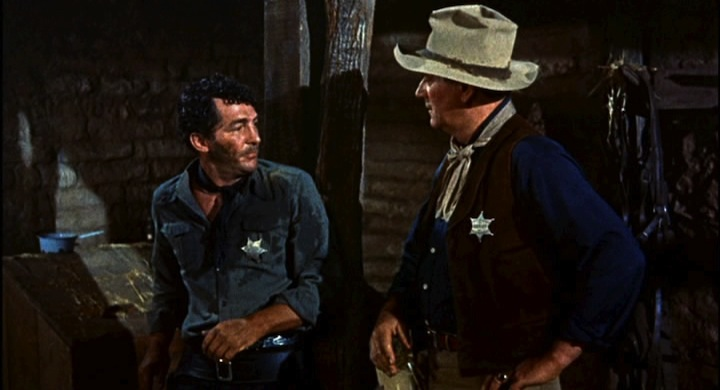 Cropped screenshot of Dean Martin and John Wayne from the trailer for the film Rio Bravo